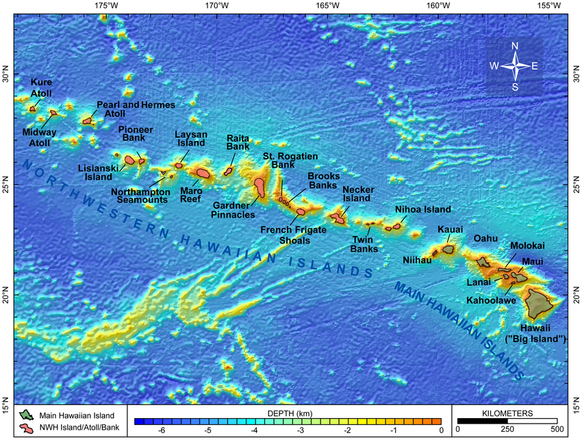 Bathymetric map of the Hawaian islands